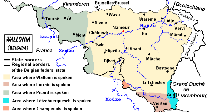 Linguistic map of Wallonia, showing where the different native languages (Walloon, Picard, Champenois, Lorrain and Luxembourgish) are spoken. Walon: Mape linwistike del Walonreye, ki mostere li spårdaedje des difirins lingaedjes do payis (walon, picård, tchampnwès, lorin eyet lussimbordjwès) k' on-z î cåze.